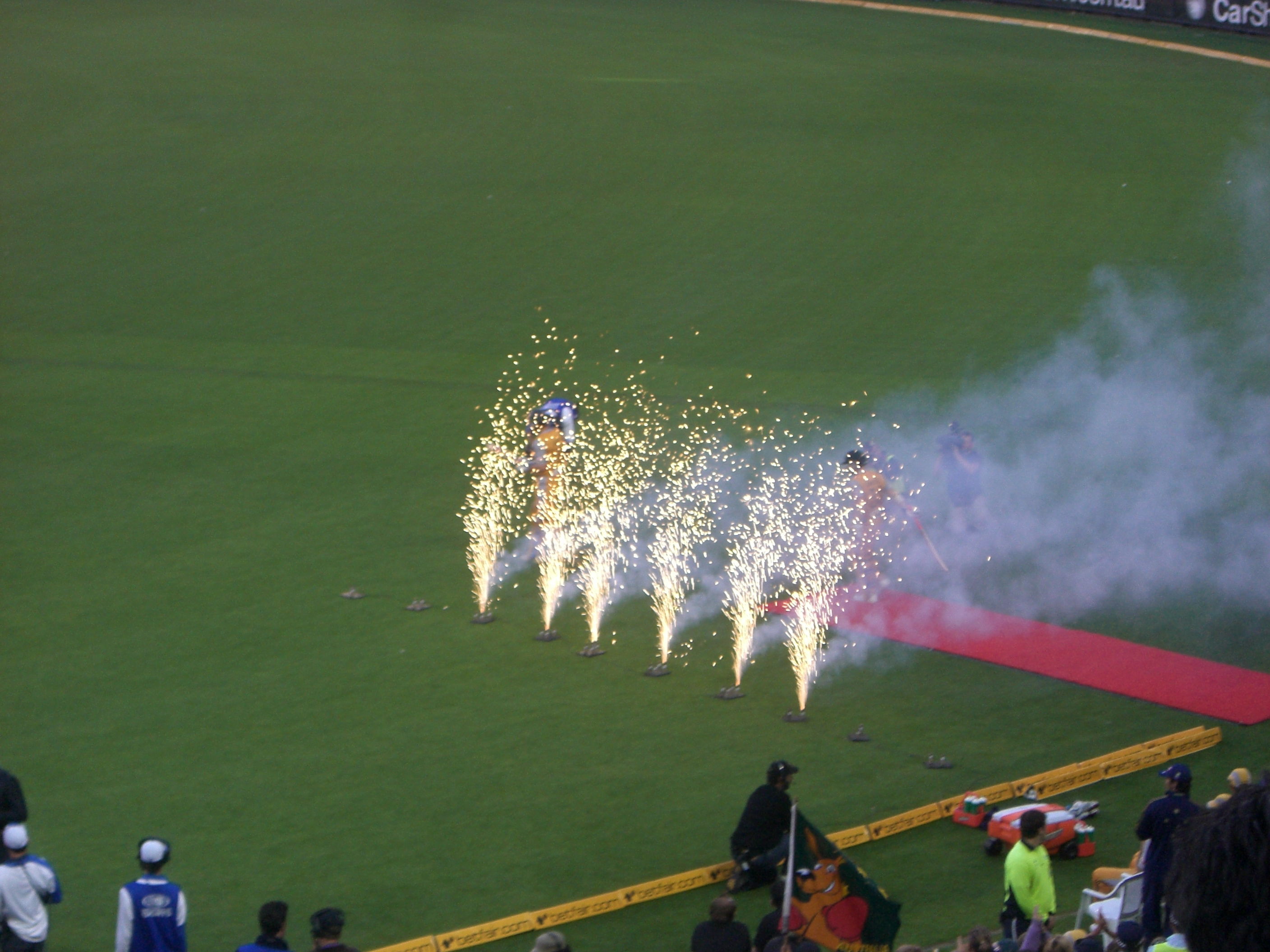 Start of Twenty20 between Australia and South Africa on January 11th 2009